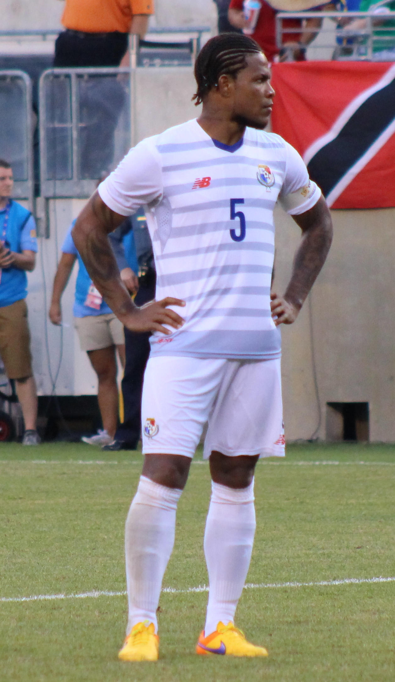 Román Torres